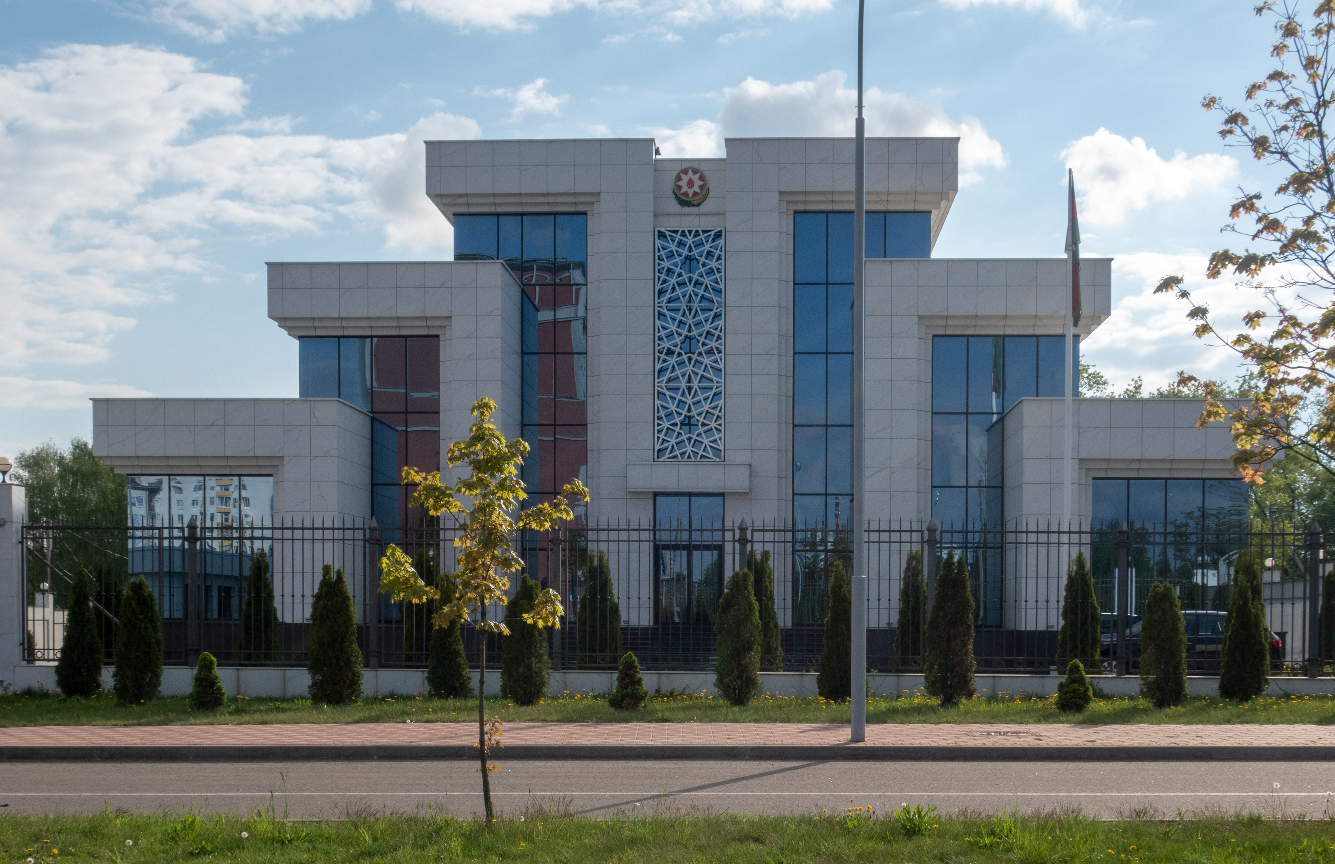 Embassy of Azerbaijan in Belarus. 5 Staravilienski Trakt (Minsk, Belarus)